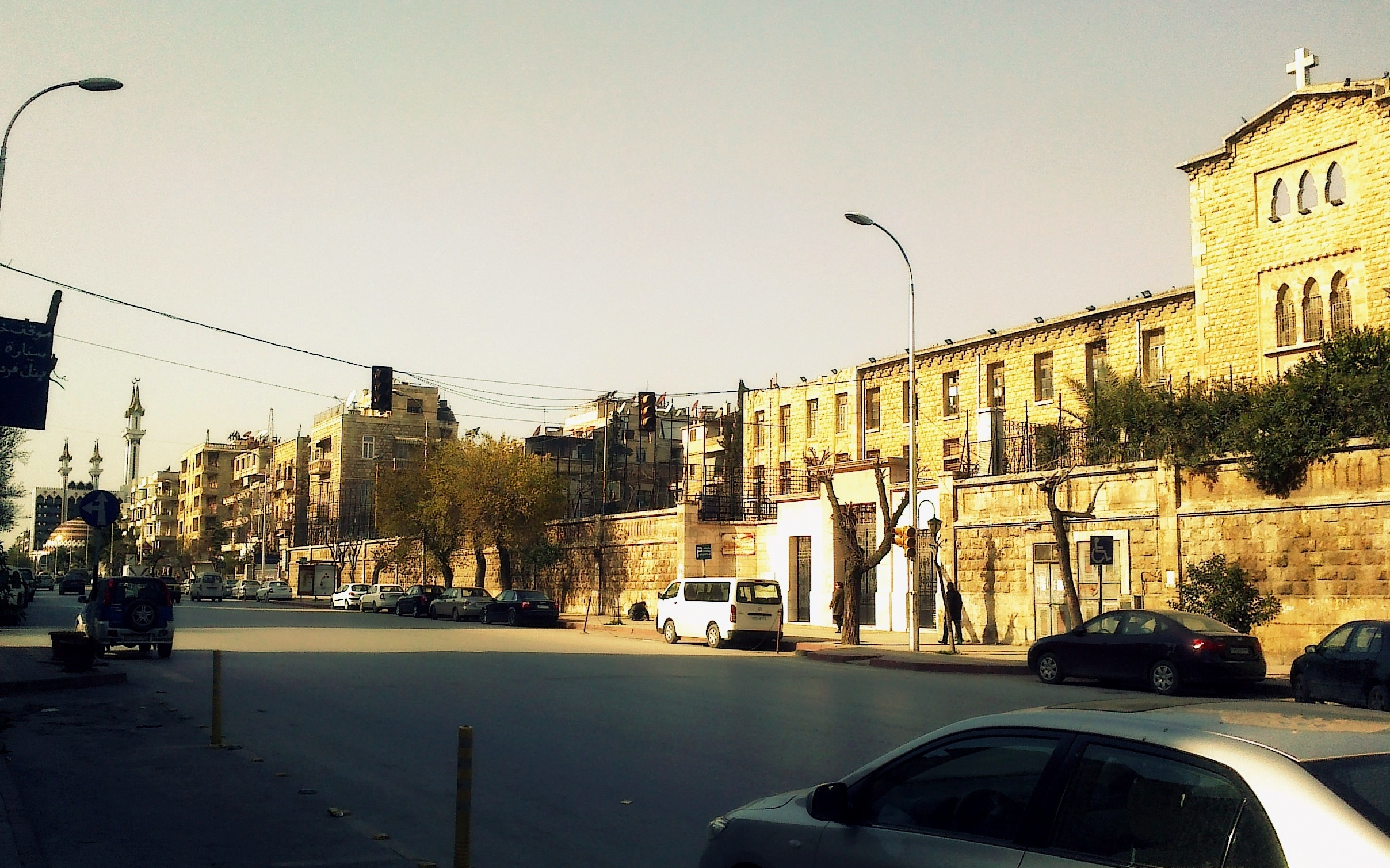 Church and Mosque in the same street in Aleppo - Syria